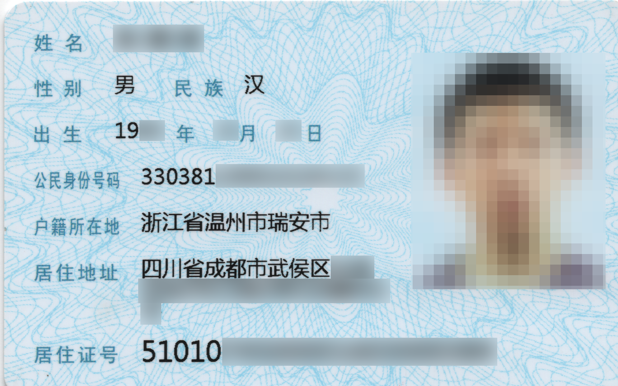 Residence Permit of Chengdu - Front